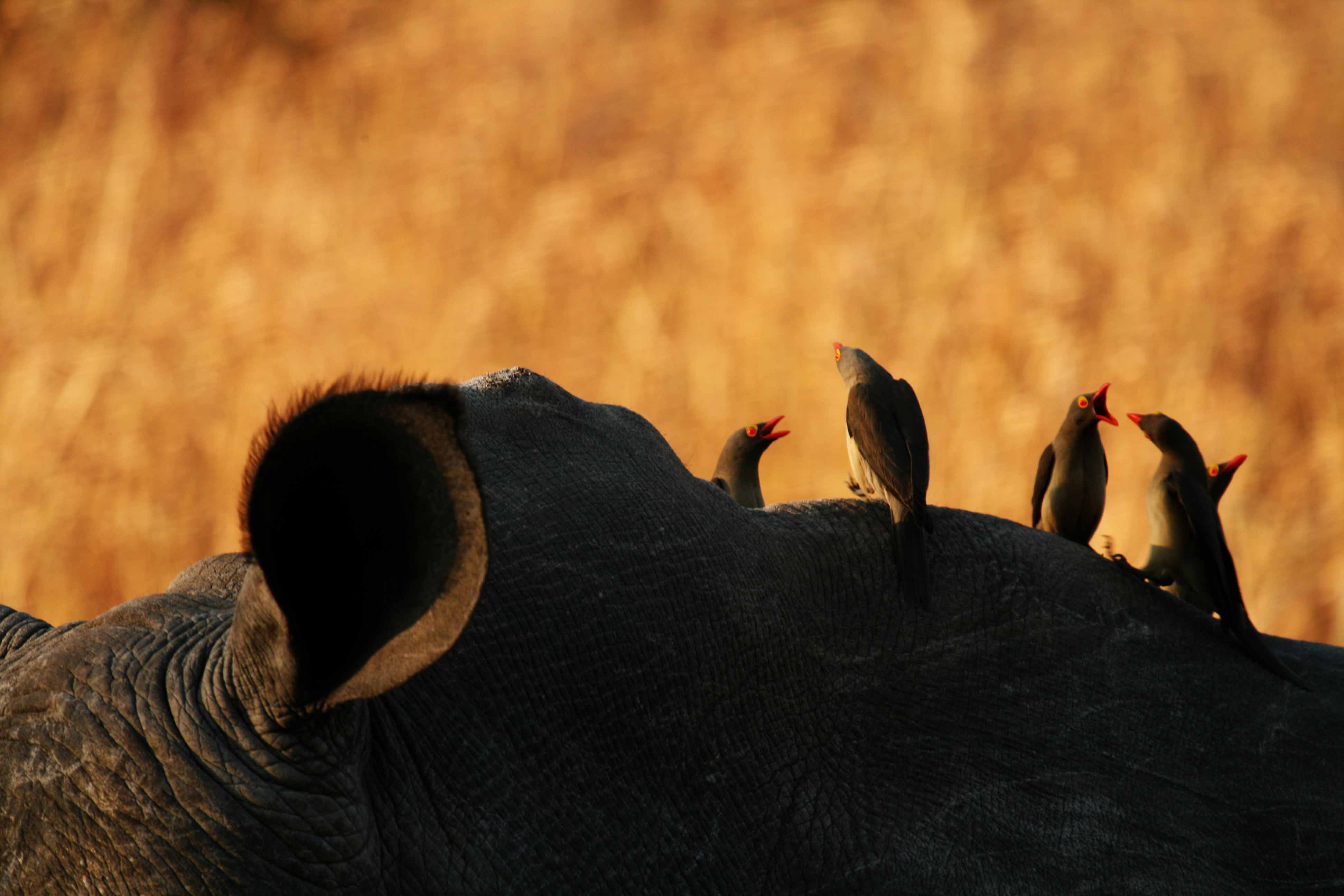 Red billed oxpeckers (Buphagus erythrorhynchus) on rhino.Sabi Sands, South Africa. Photo by Lee R. Berger.